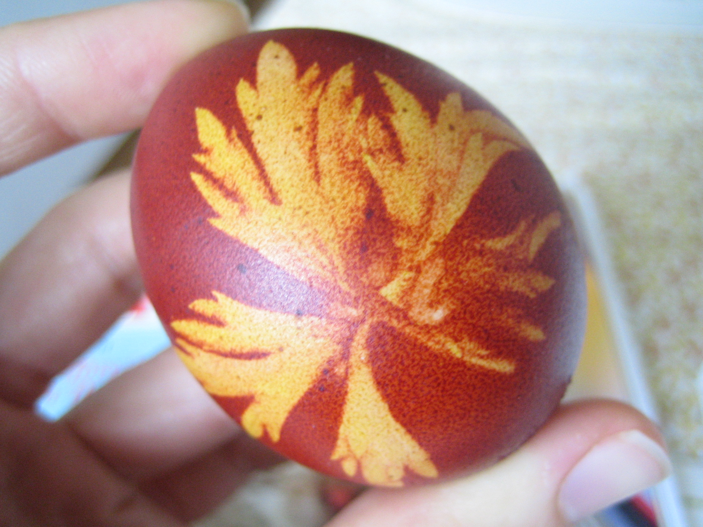 Slovenian easter egg, colored with onion